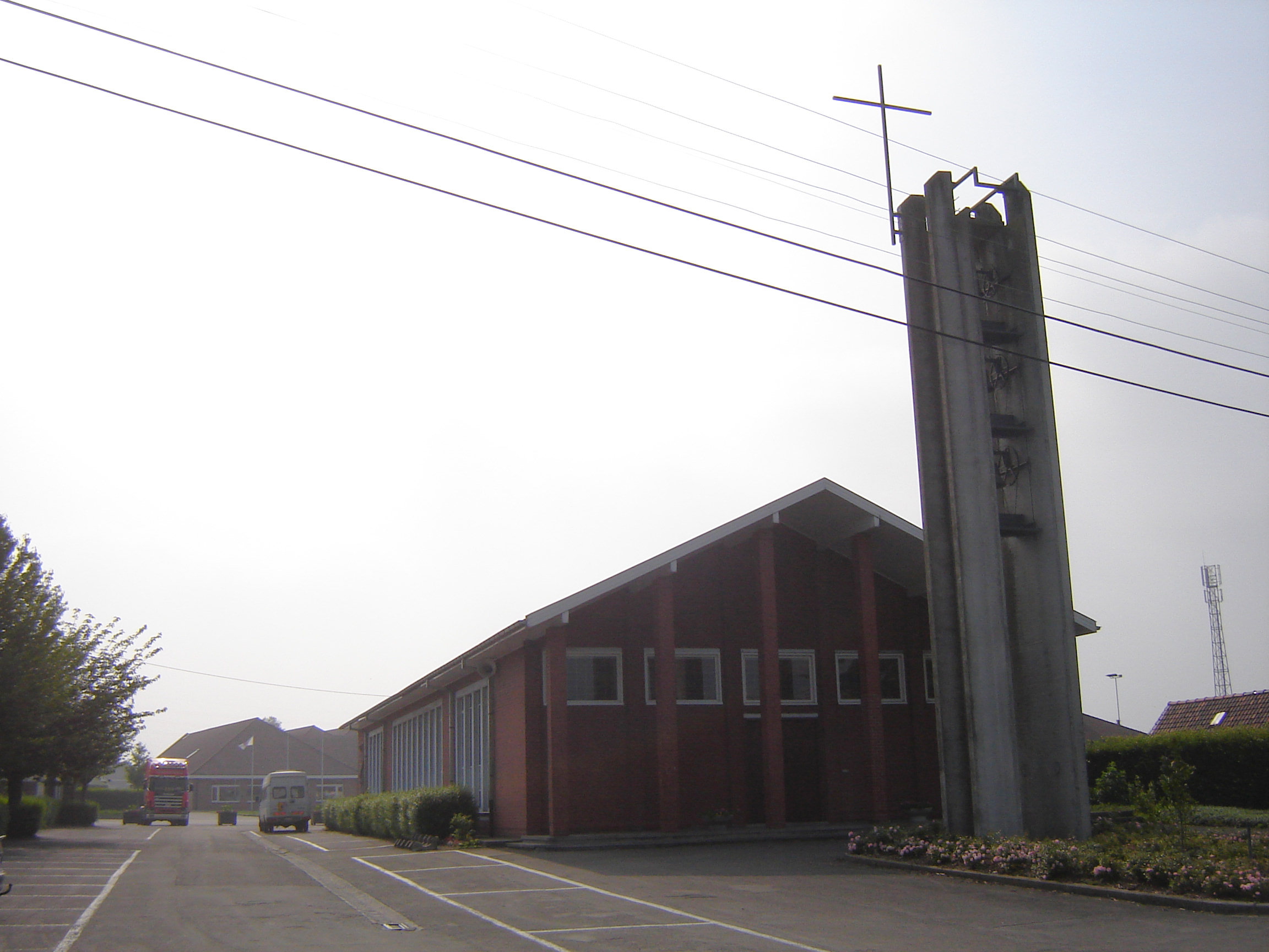 Church of Saint Joseph the Worker in Zwevegem. Zwevegem, West Flanders, Belgium